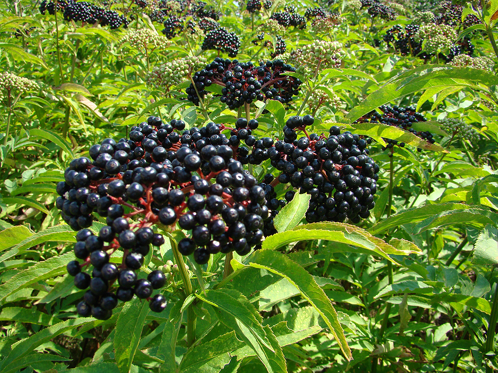 Ripe berries on Sambucus Ebulus (Dwarf Elder) from Sredna Gora mountain, Bulgaria